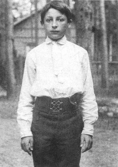 Photograph of the Russian-American musicologist Nicolas Slonimsky (1894–1995) at the family datcha in Finland.